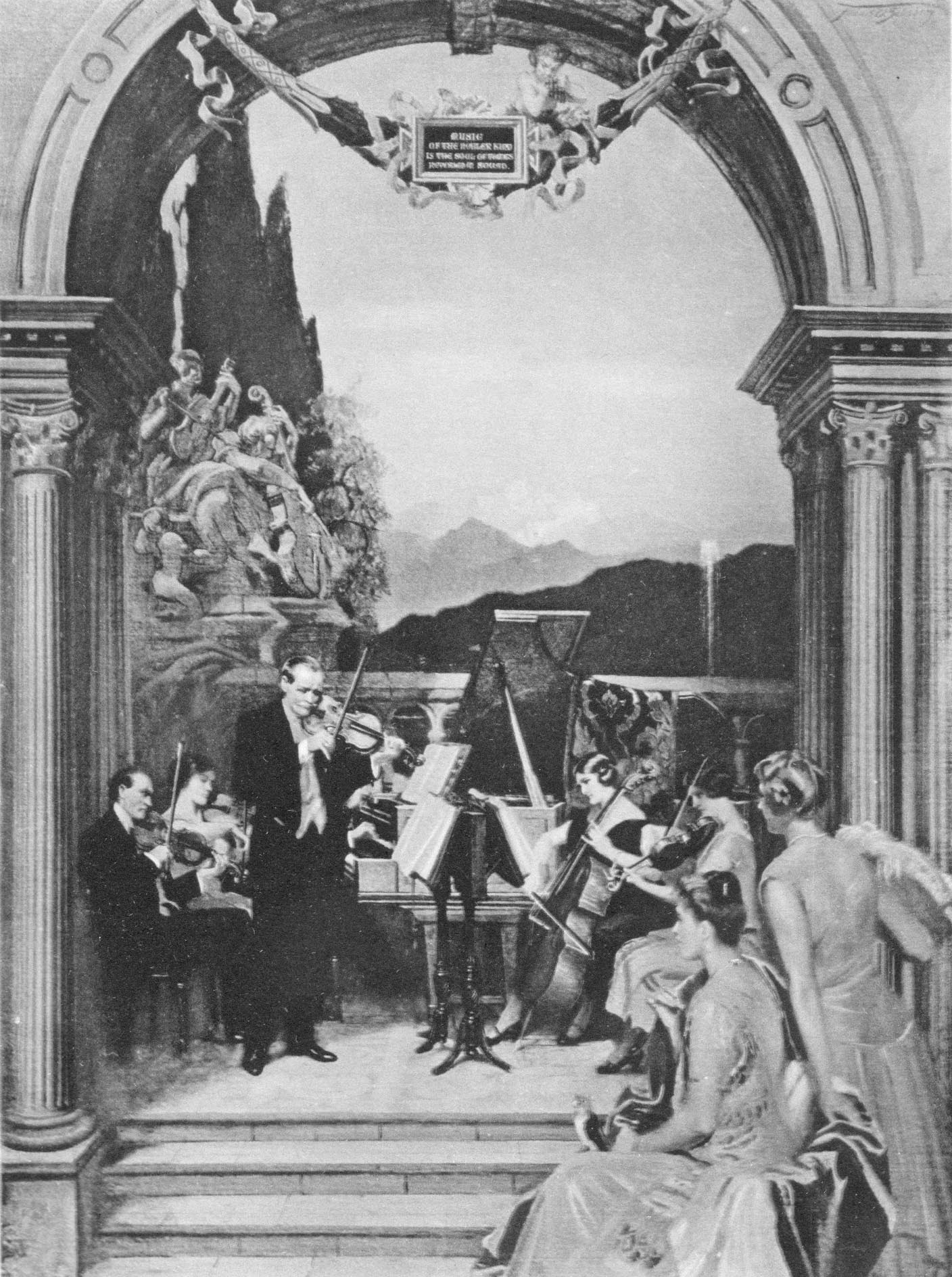 Walter Willson Cobbett playing Chausson concerto for violin, piano and string quartet